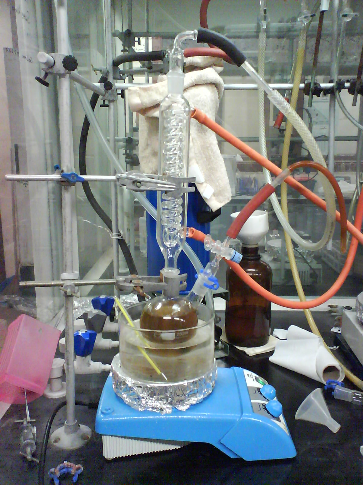 Toluene is refluxed in sodium-benzophenone to remove oxygen and water, before being distilled. Photo taken 4 Sep 2006. Keywords: reflux, toluene, sodium, benzophenone, distillation, desiccation Gallery A bottle of benzophenone by Lancaster. Toluene is refluxed with sodium and benzophenone to produce dry, oxygen-free toluene. The mixture is still not blue yet indicating that the reaction is not complete. The intense blue coloration due to the benzophenone ketyl radical shows that the toluene is considered free of air and moisture. After the toluene has been thoroughly dried by the sodium and benzophenone, it is distilled at atmospheric pressure under a slight positive pressure of nitrogen to prevent contamination by air into the receiving Schlenk flask. Category:desiccants Category:distillation